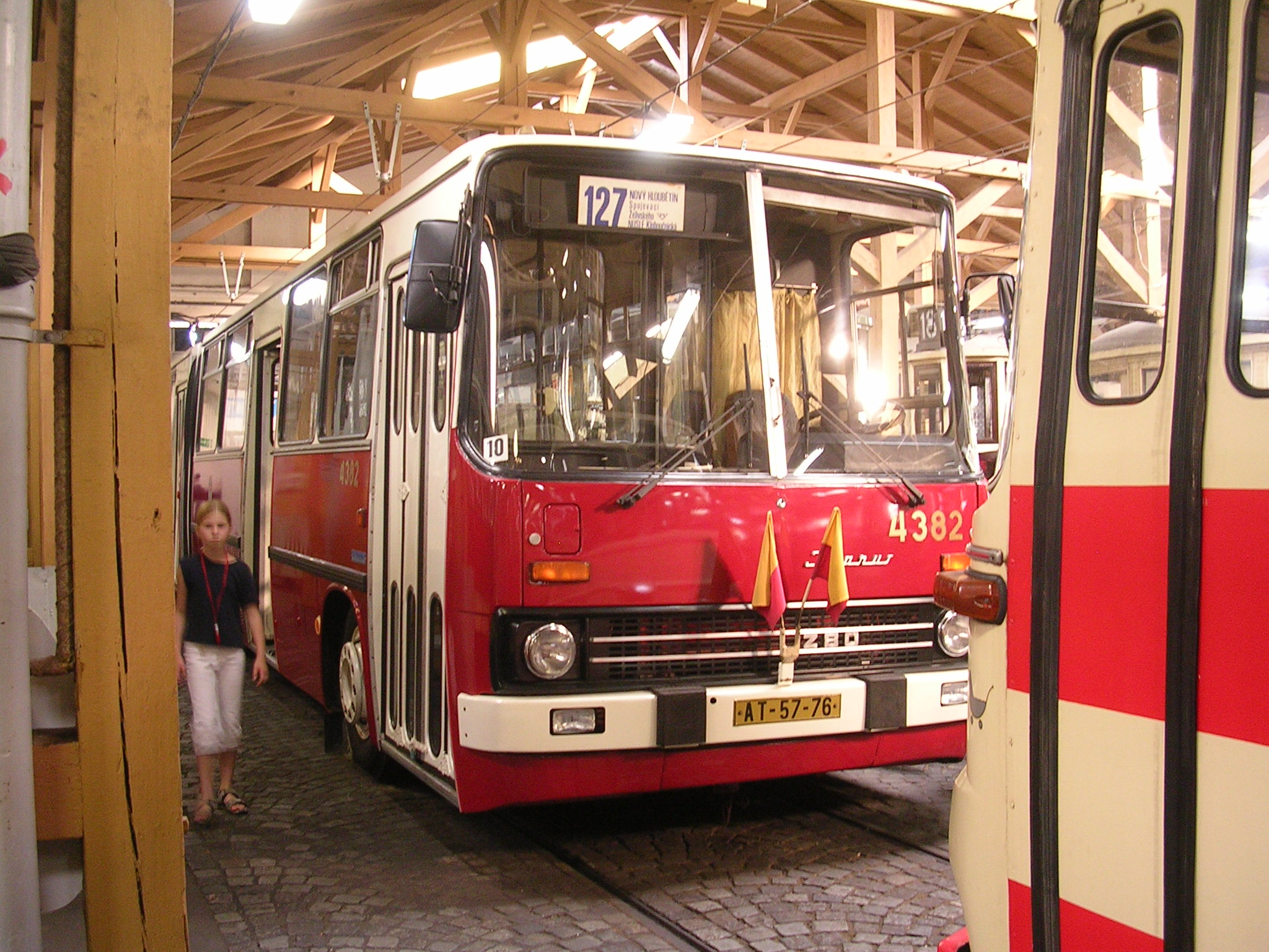 Střešovice, Prague, the Czech Republic. Ikarus 280.